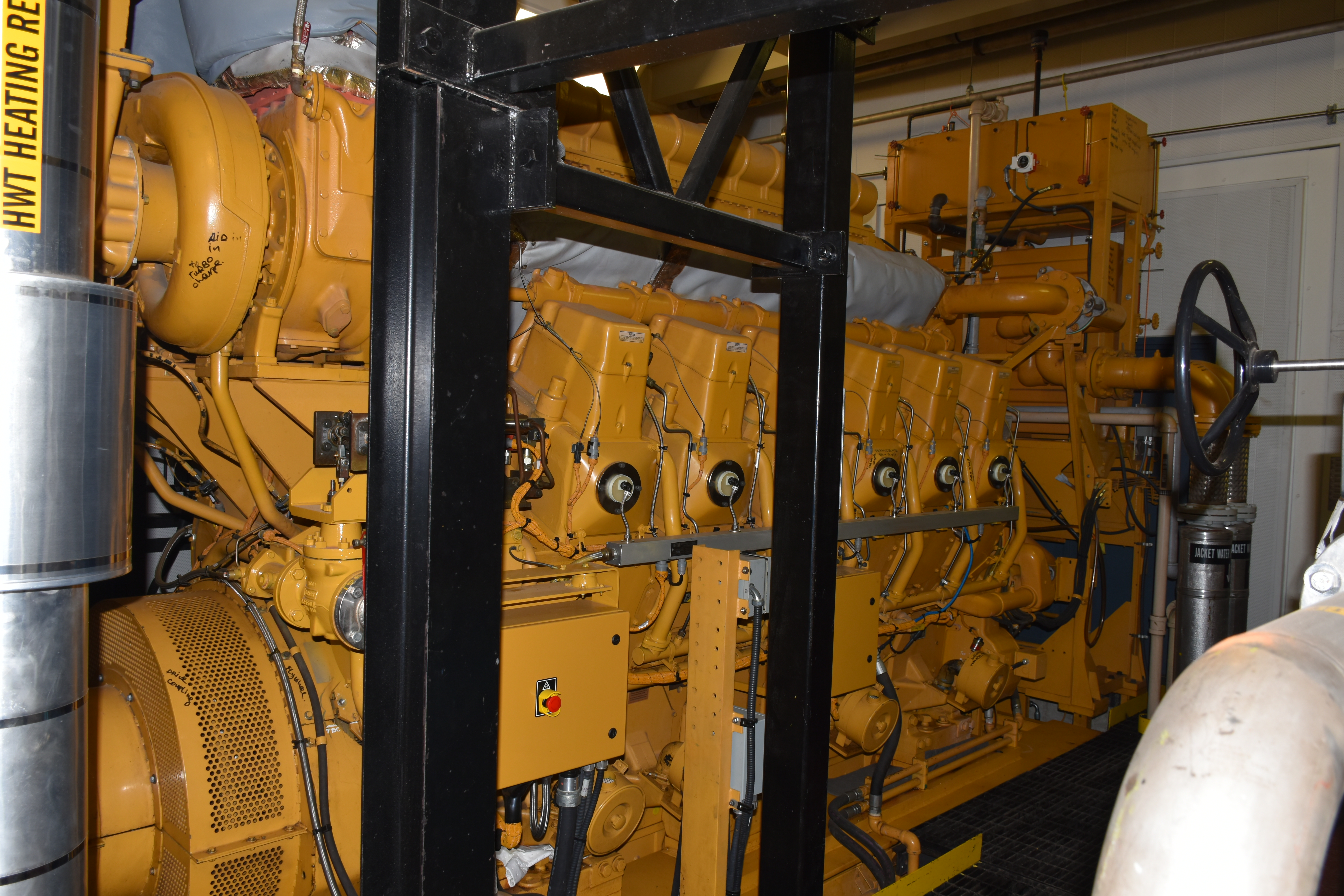 12-cylinder turbo-diesel prime mover for a generator set that provides auxiliary electrical power to a building.